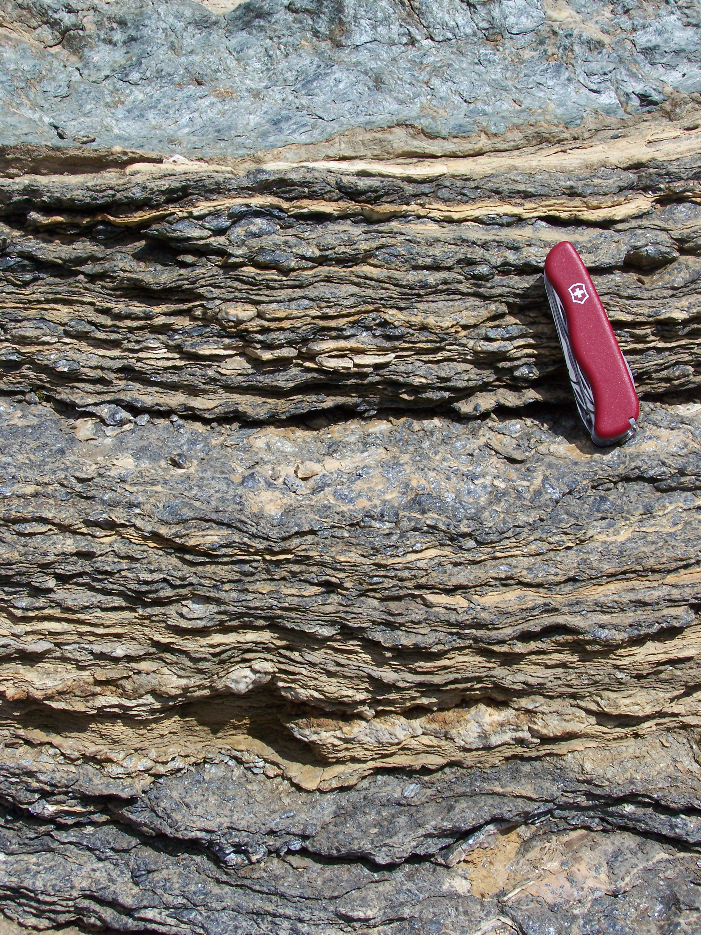 Two types of schist in the Zermatt zone in the Penninic nappes: the larger part of the picture shows Tsaze-nappe pelitic schists with quartz bands. Topmost part of the picture has a (green) serpentinite lithology, part of a 5m large boudin. Swiss armyknife (~10 cm) for scale, location: Colle del Turlo, Valle di Gressoney, Italy.